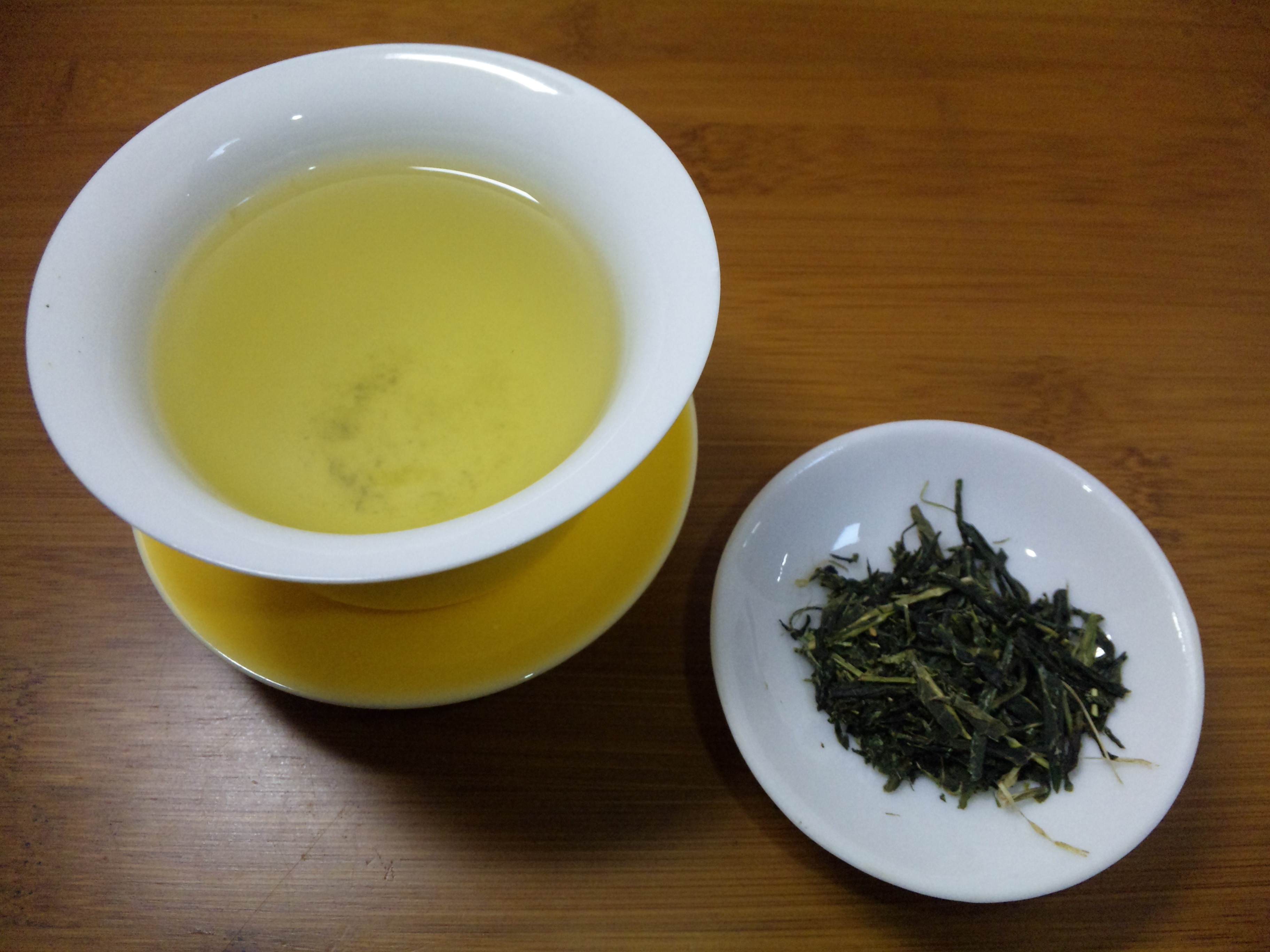 Japanese Tea "Kabuse-Cha"